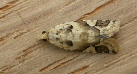 Capua euphona